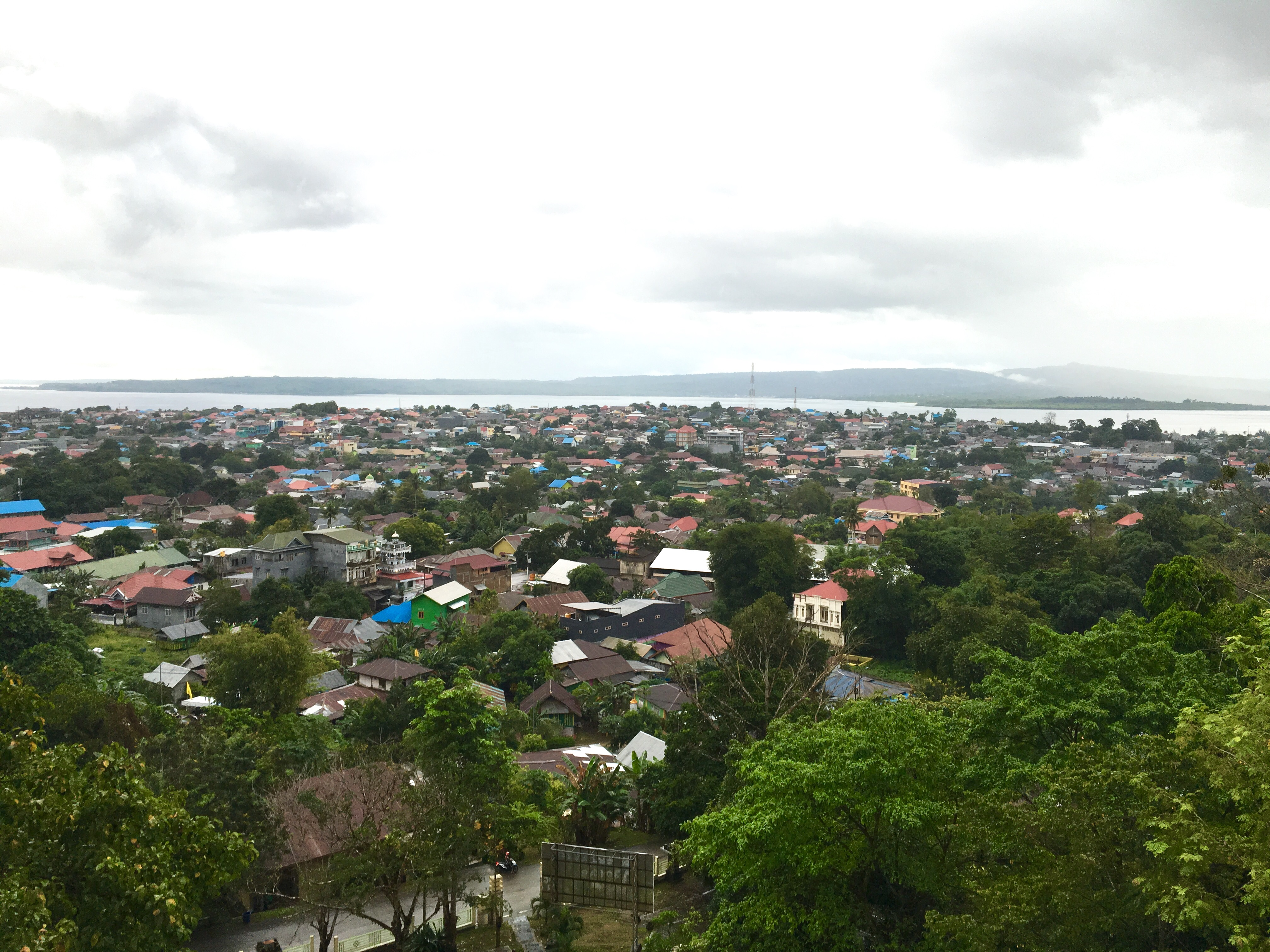 View of the city of Bau-Bau from the Buton Palace Fortress.